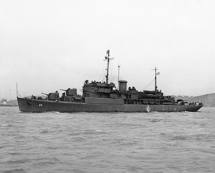 USS Chincoteague (AVP-24) on 27 December 1943.